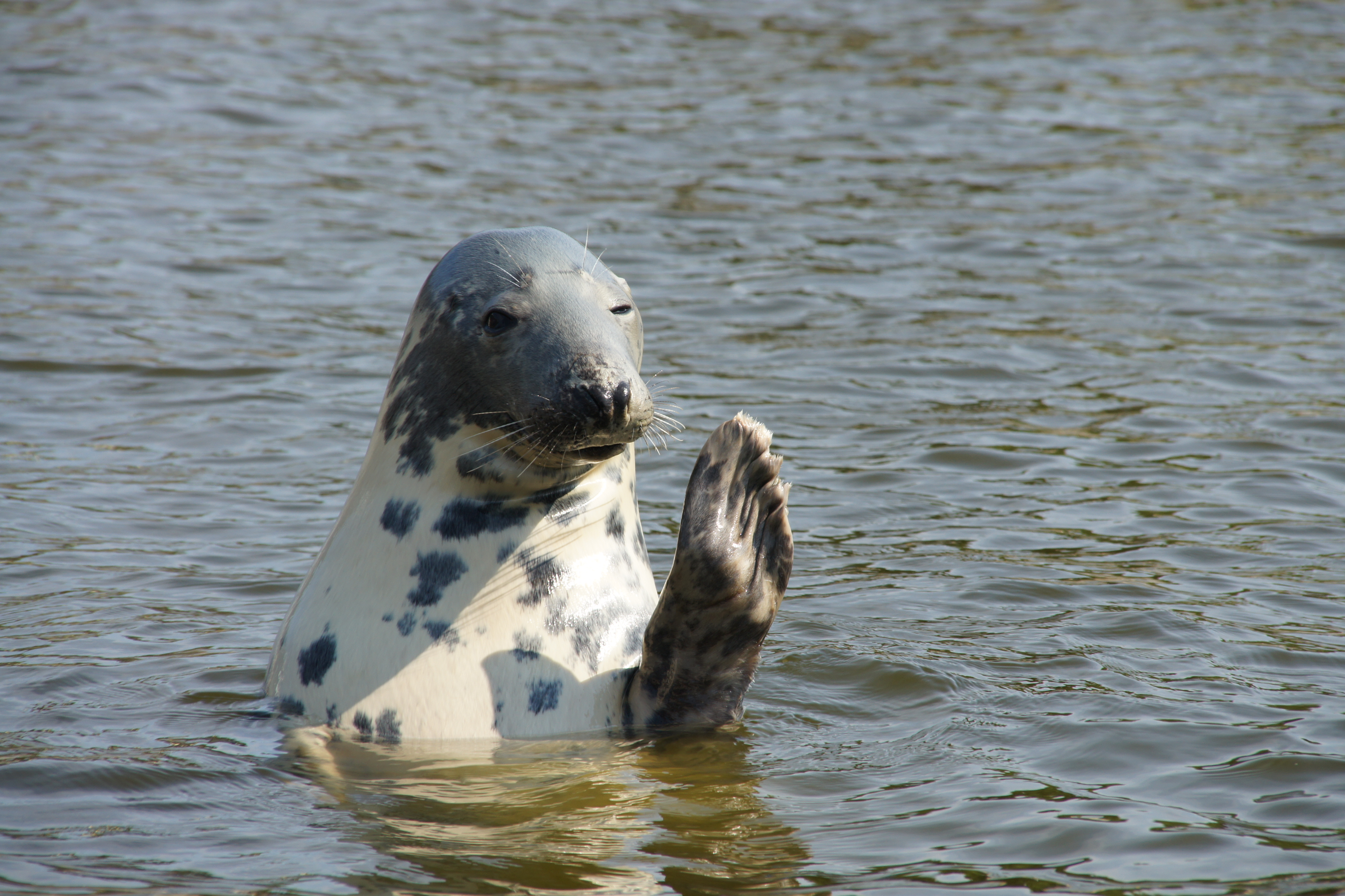 Grey seal (Halichoerus grypus) in Seal Sanctuary in Hel, Poland